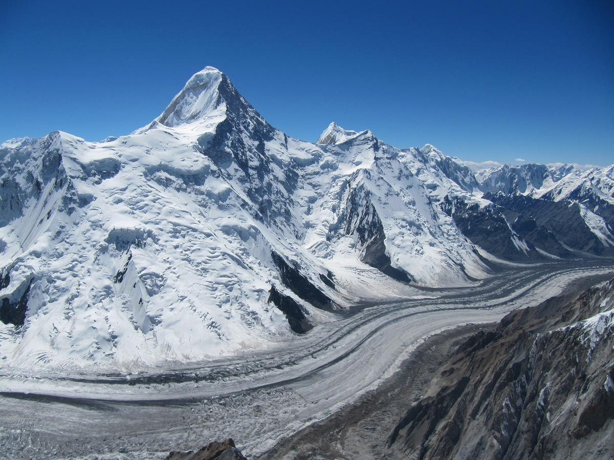 North Wall of Khan Tengri, 7010 m, Tian Shan.